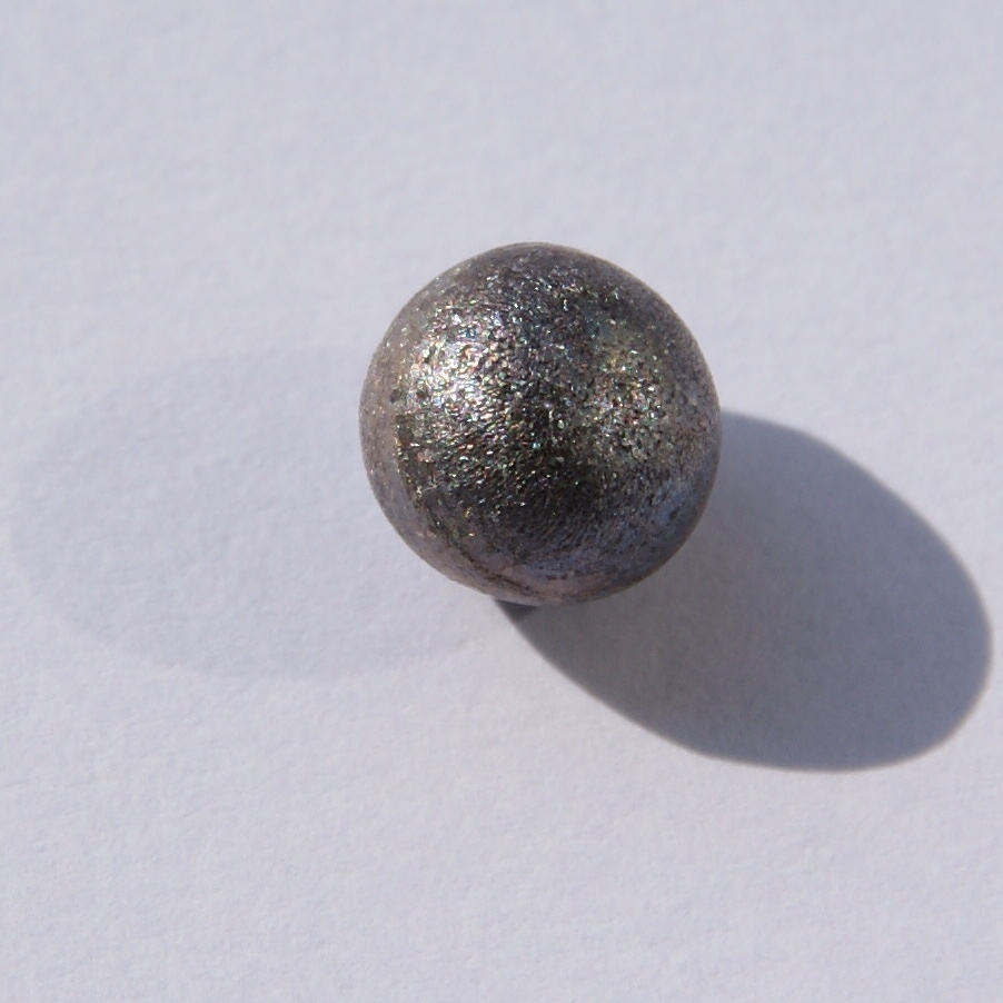 Niobium bead with oxide layer, size: 6mm.